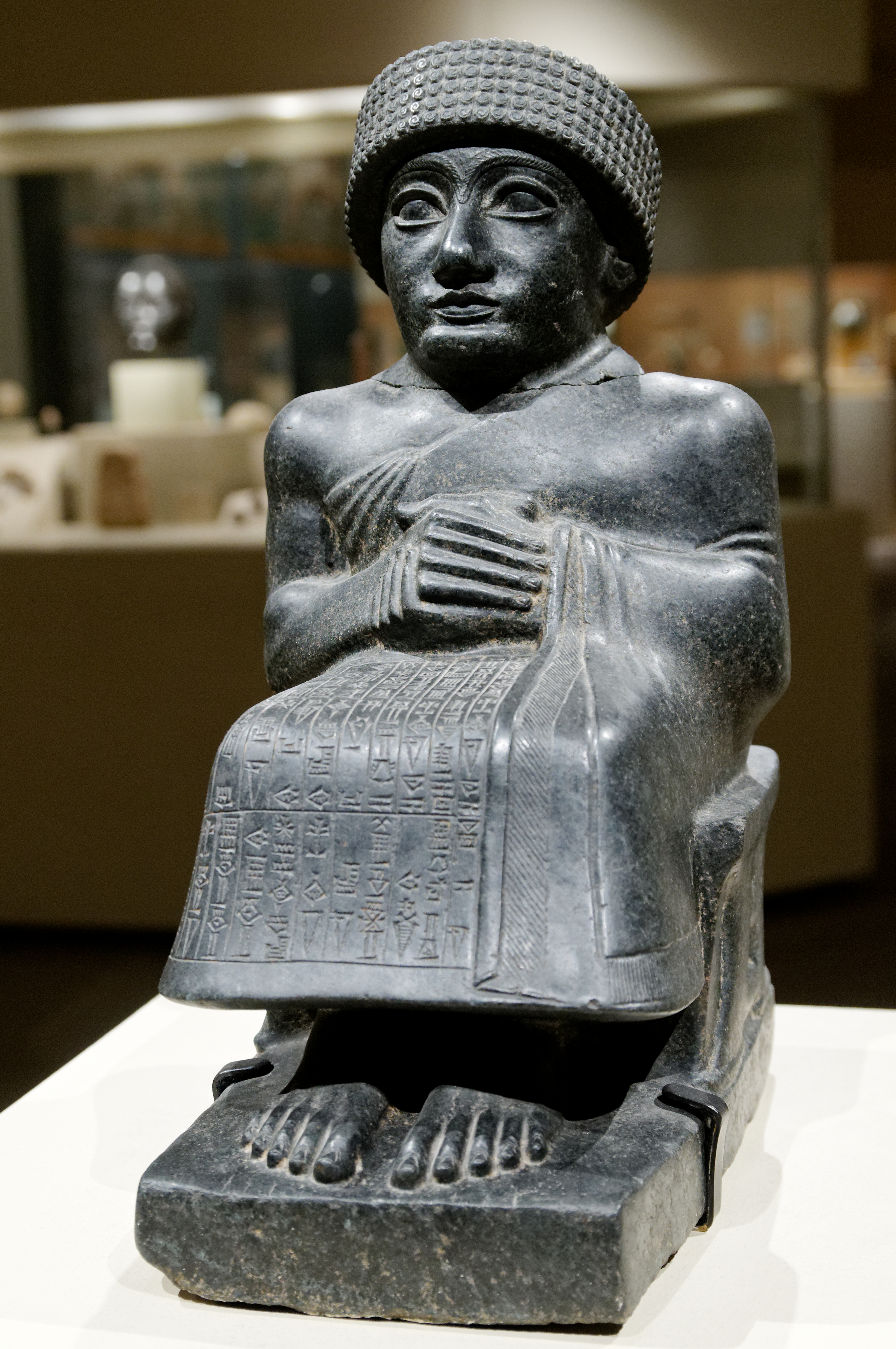 Statue of Gudea, Neo-Sumerian period.